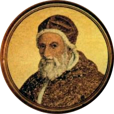 Portrait of Pope Gregory XIII in the Basilica of Saint Paul Outside the Walls, Rome